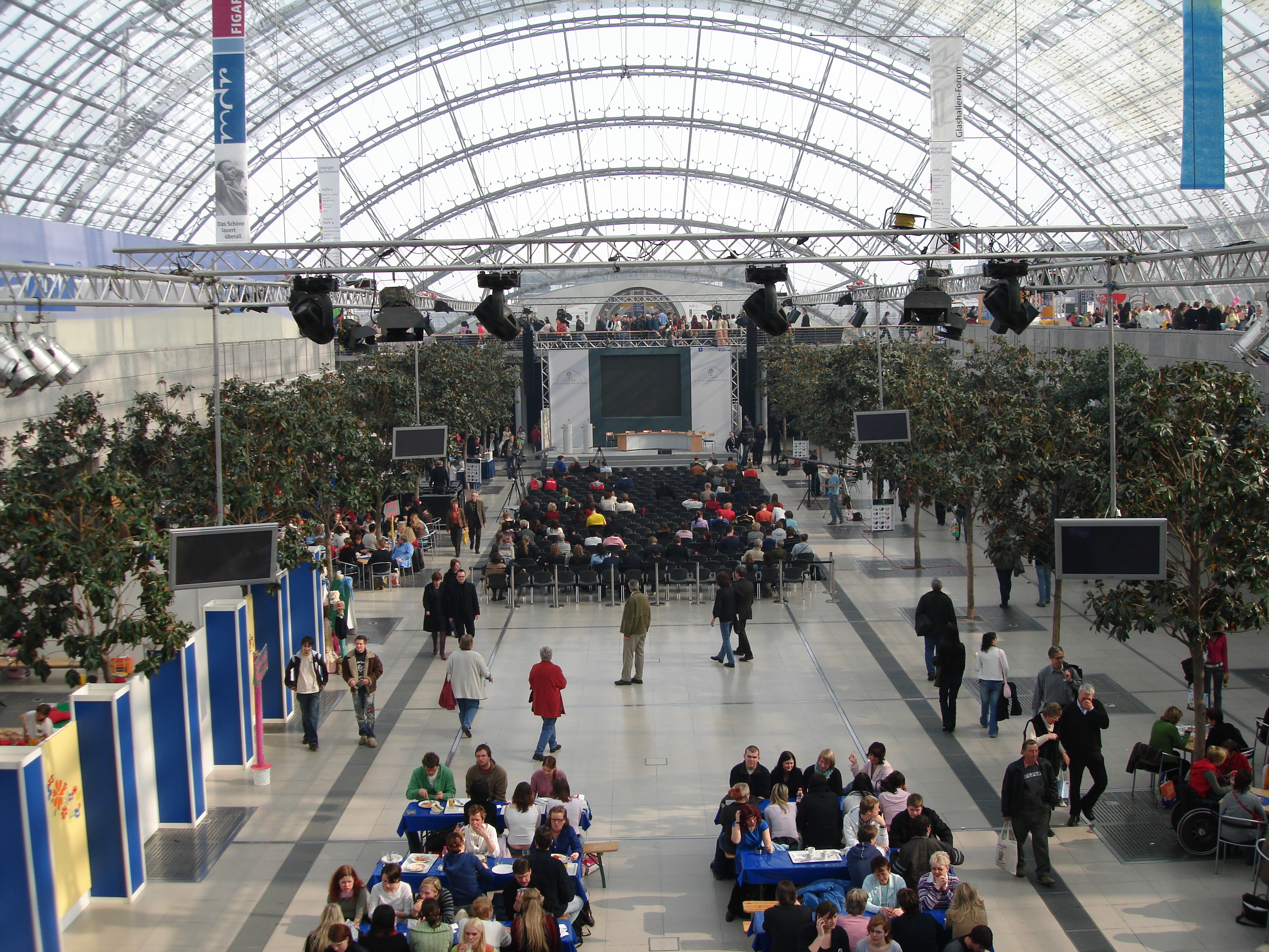 Leipzig book fair 2006